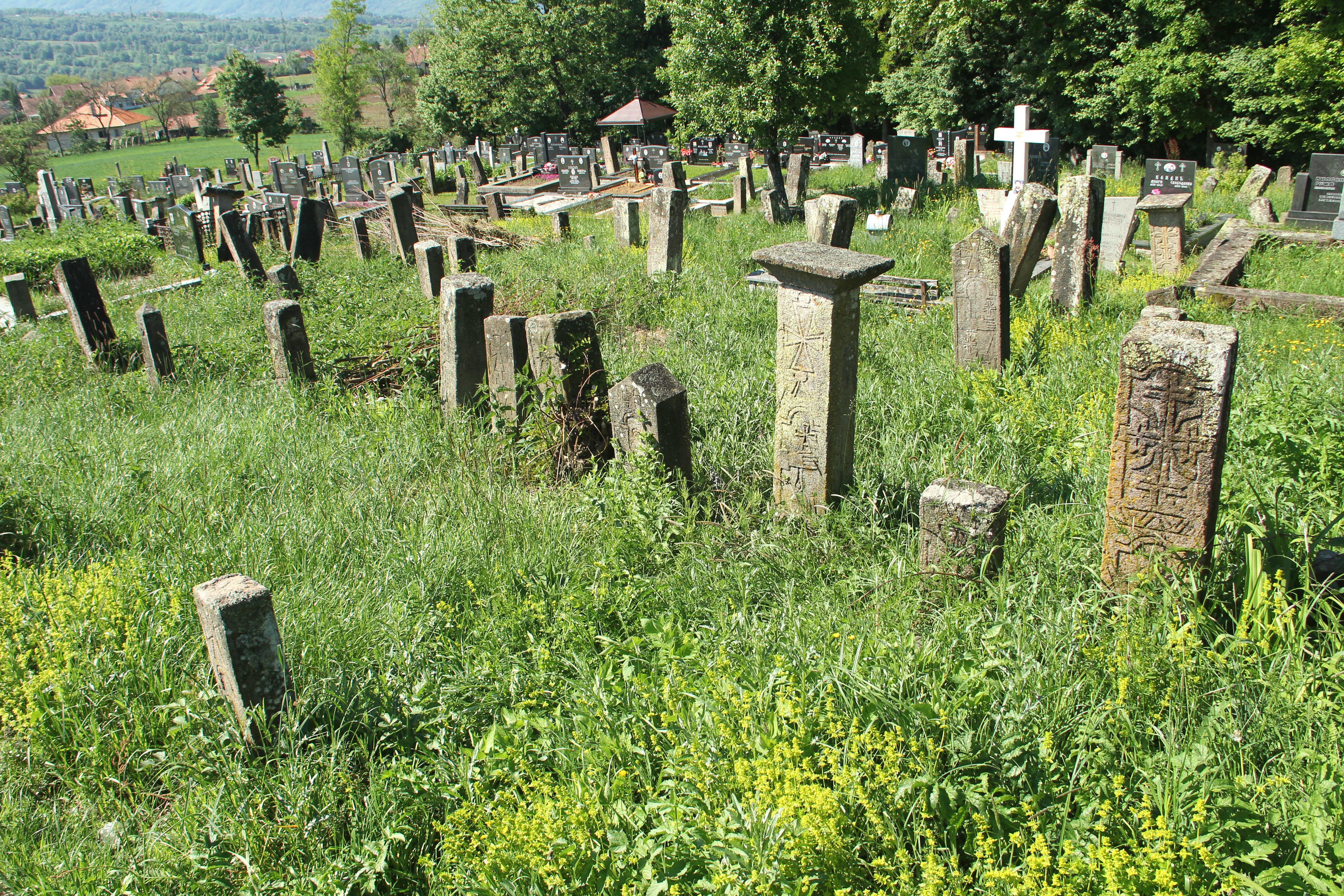 Old gravestones at the Siroko polje cemetery in the village of Velerec (the municipality of Gornji Milanovac).